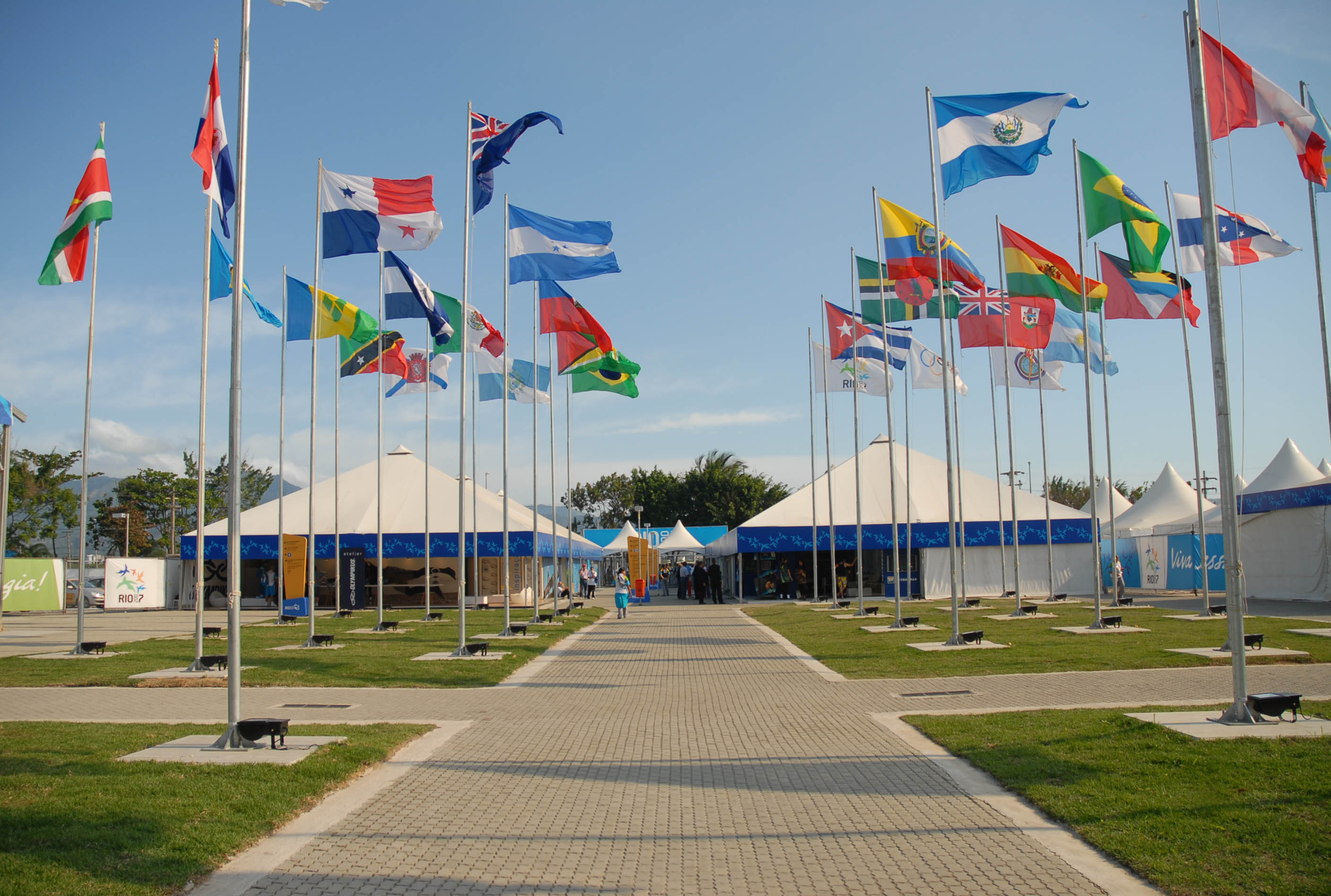 Flag Square at the Olympic (Pan American) Village at the 2007 Pan American Games in Rio de Janeiro.